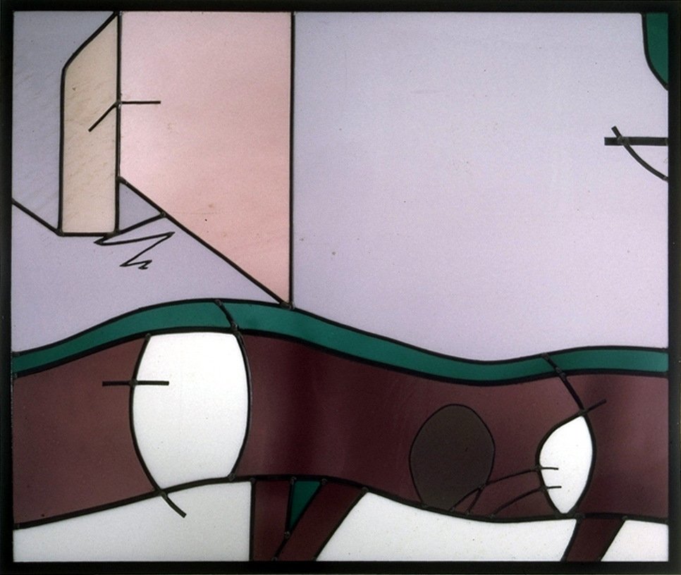 "Composition XXXVIII" — by Robert Kehlmann (1977), Museum of Arts and Design, New York, Opaque leaded glass panel with glass overlay.